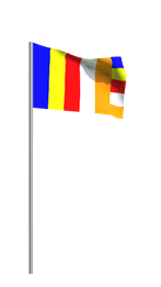 the Flags of Dhamma and Buddha (ธงฉัพพรรณรังสี)